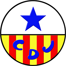 Historical badge of Club Esportiu Júpiter. Digitally enhanced and with alpha channel.